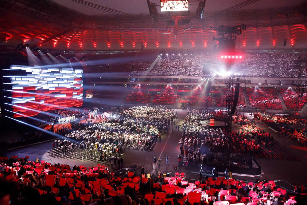 Concert for Independence 2018.